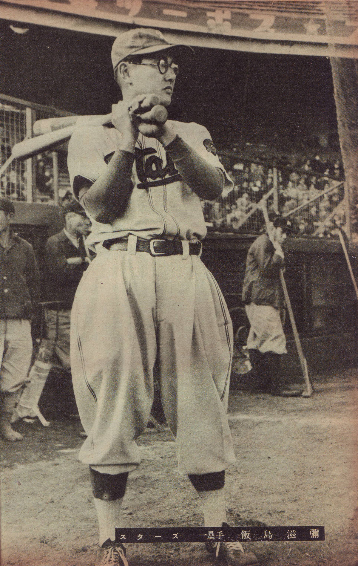 Shigeya Iijima(Daiei Stars). taken in 1950.